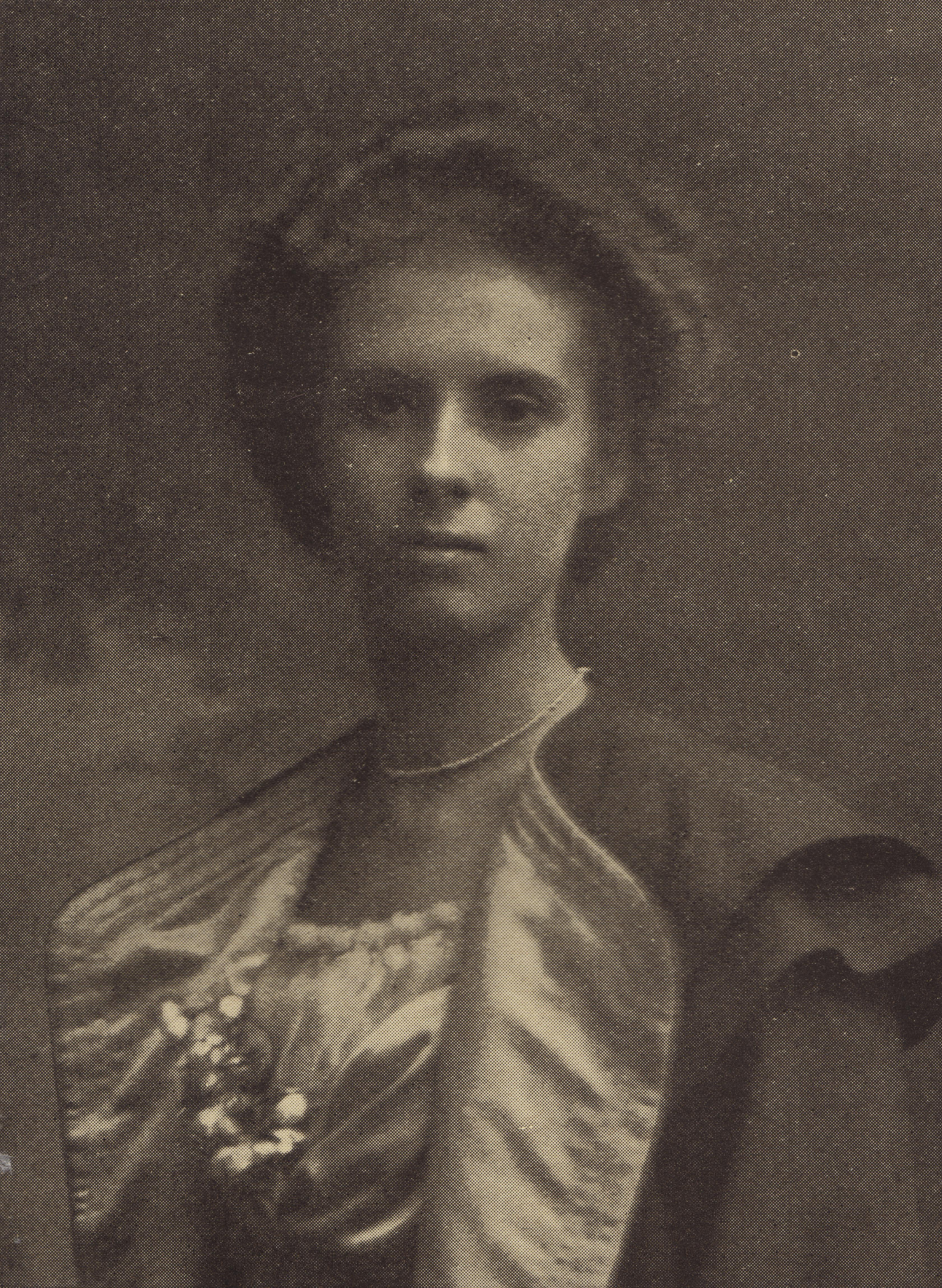 Scanned from Modern Musicians by J. Cuthbert Hadden (First published by T.N.Foulis in 1913) - September 1918 Foulis reprint. Book is in the Public Domain in the US and UK. Scanned as 1200 dpi bitmap (photo) then converted to jpeg.